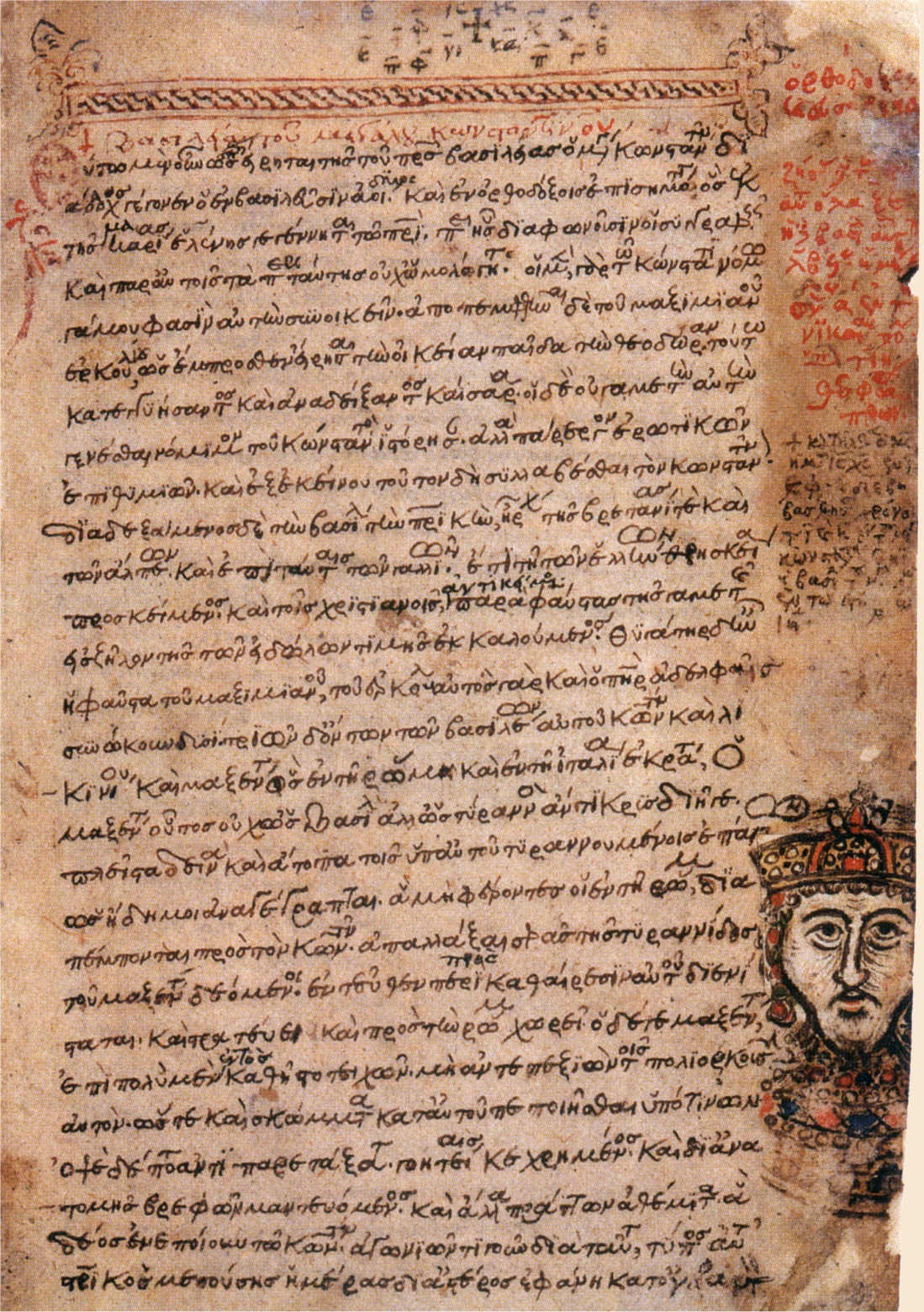 Joannes Zonaras, Epitome Historiarum